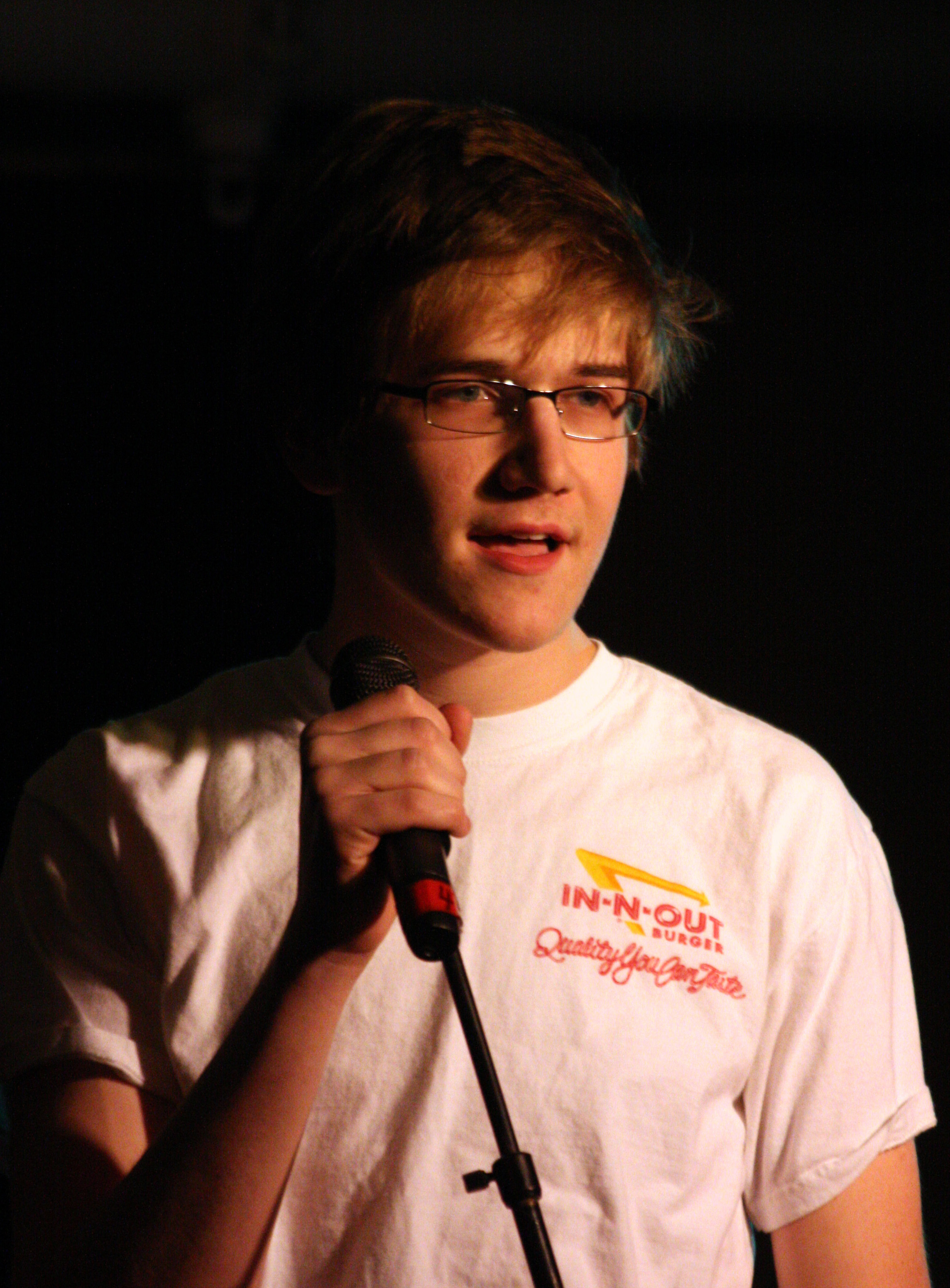 Comedian Bo Burnham at The Spot at CWRU in Cleveland, Ohio, March 19, 2009.